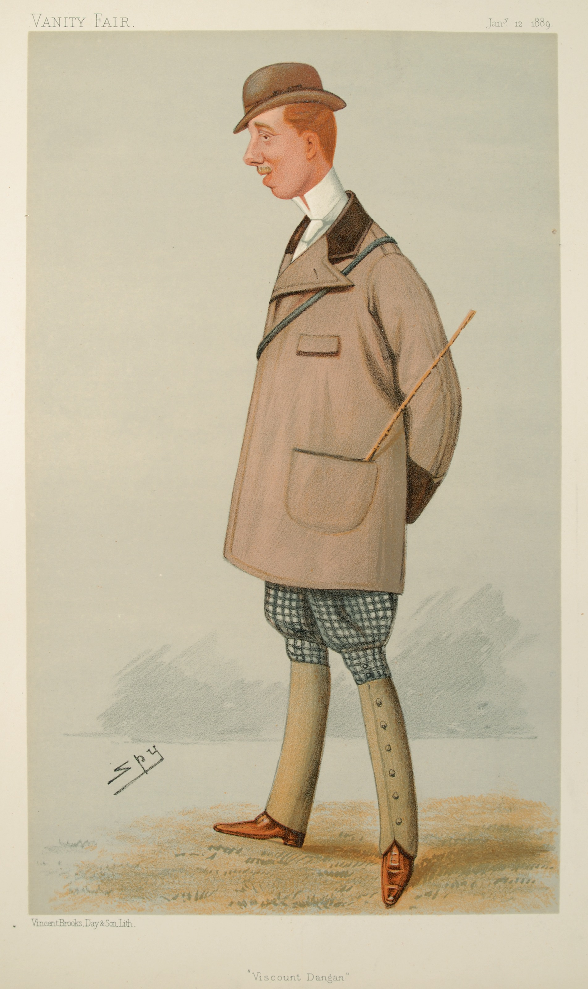 Statesmen No. 558: Caricature of Henry Arthur Mornington Wellesley, Viscount Dangan, later 3rd Earl Cowley. Caption: Viscount Dangan.